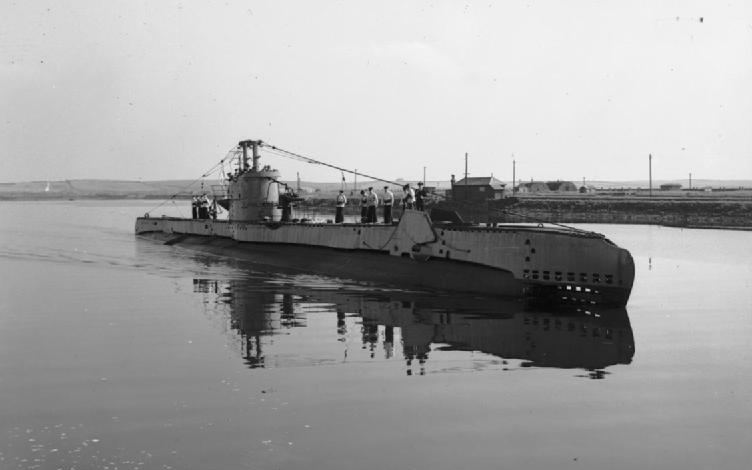 British S class submarine HMSM SIRDAR underway